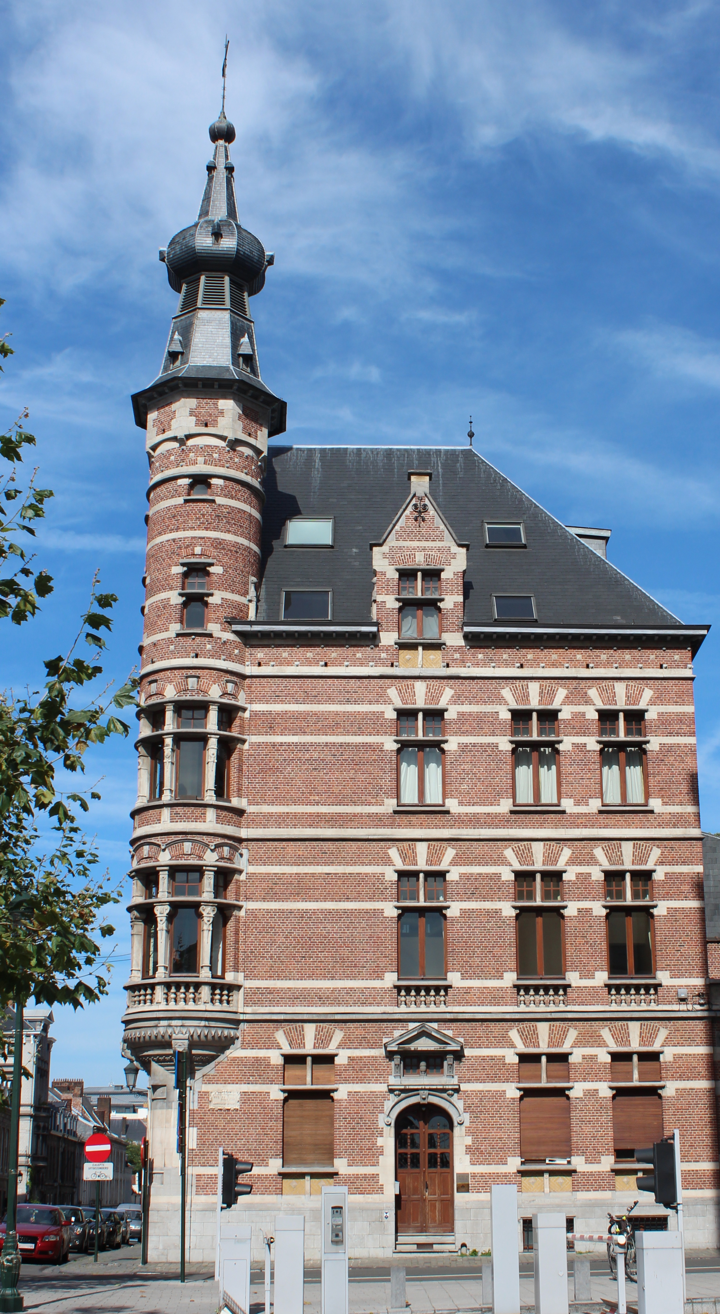 WOLSTRAAT 0 , GROTEHERTSTRAAT 2 - 4 RUE AUX LAINES 0 , RUE DU GRAND CERF 2 - 4 BRUXELLES